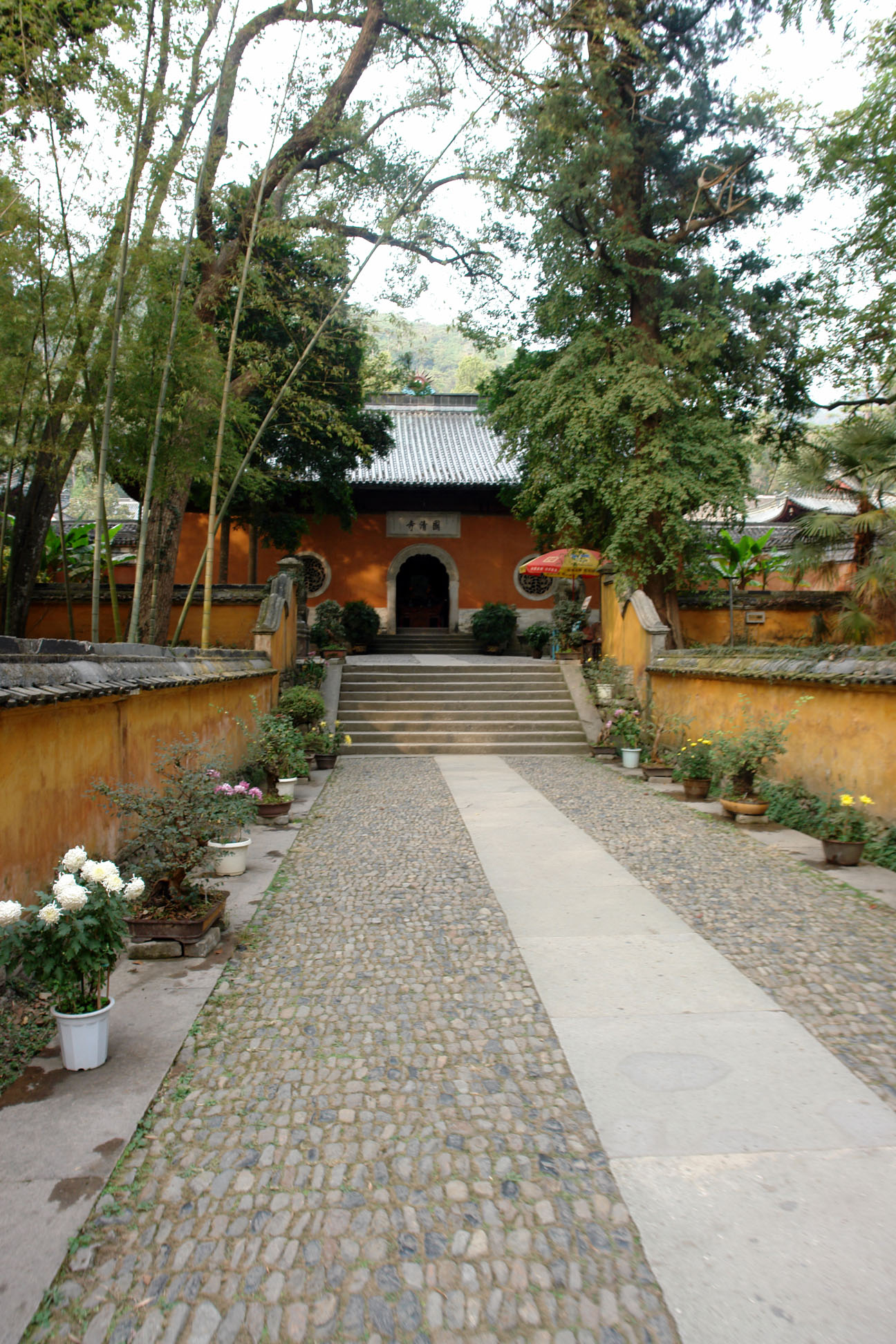 Guoqing Temple at Tiantai, Zhejiang, China